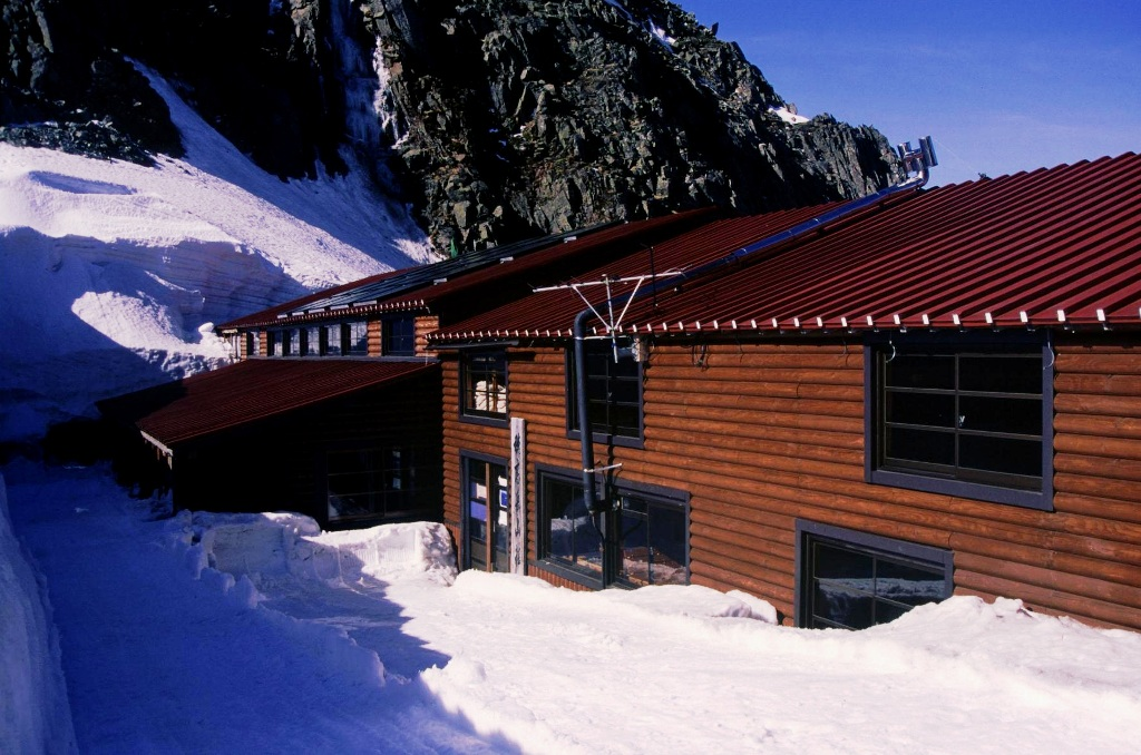 Hotakadake_Sanso in Mount Hotaka, Japan.